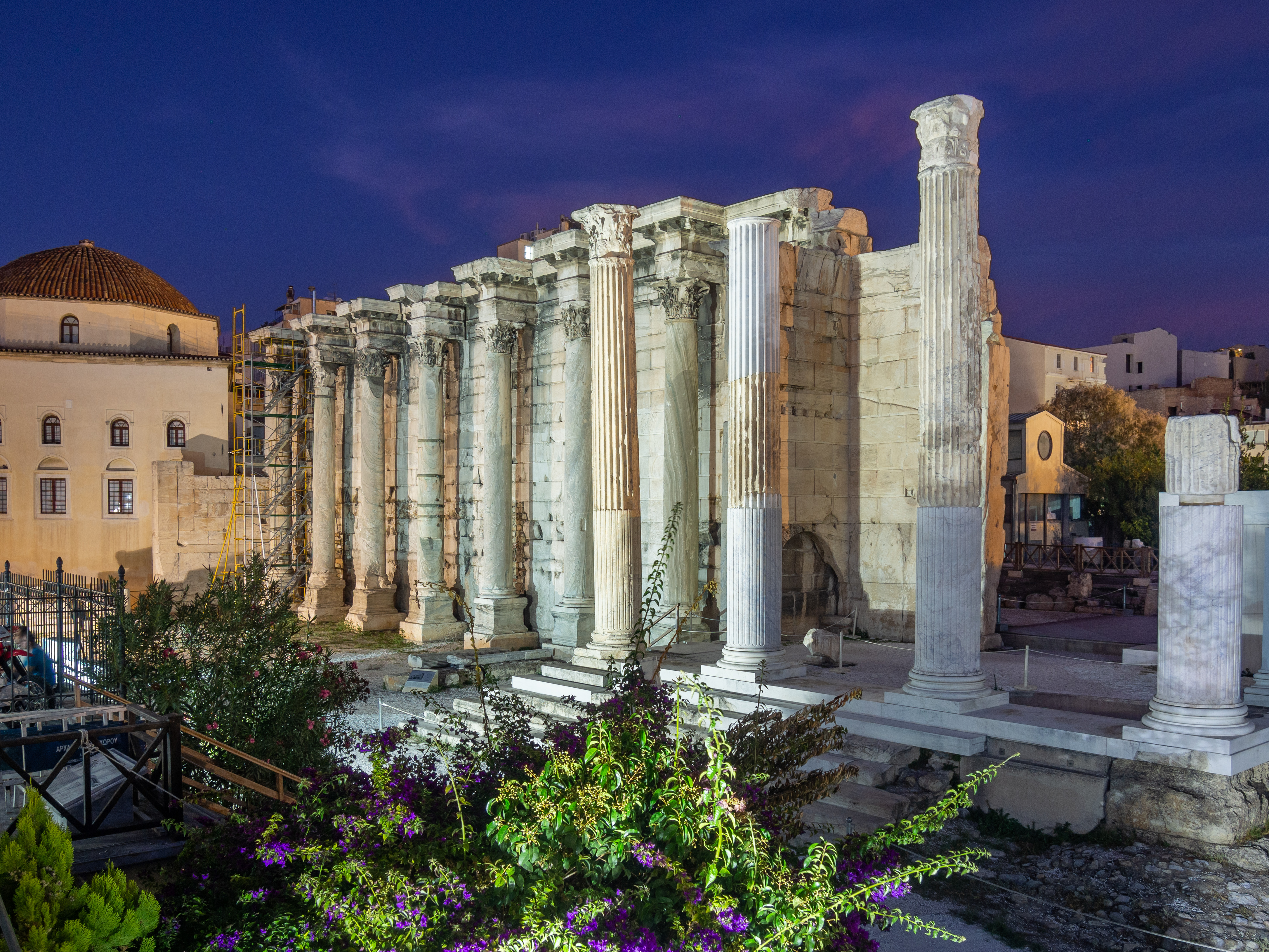 Library of Hadrian, Athens«Βιβλιοθήκη Αδριανού»